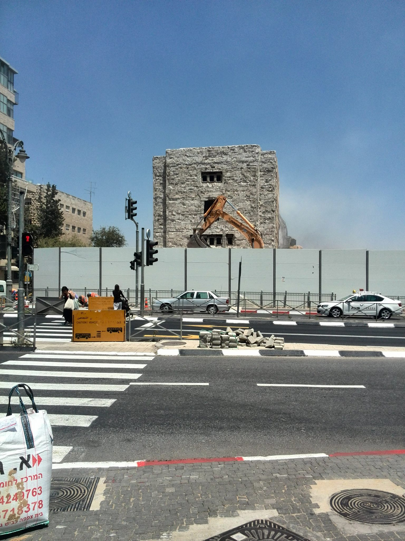 Jerusalem, corner of King George street and Ha-Rav Avida street, solel-bone house